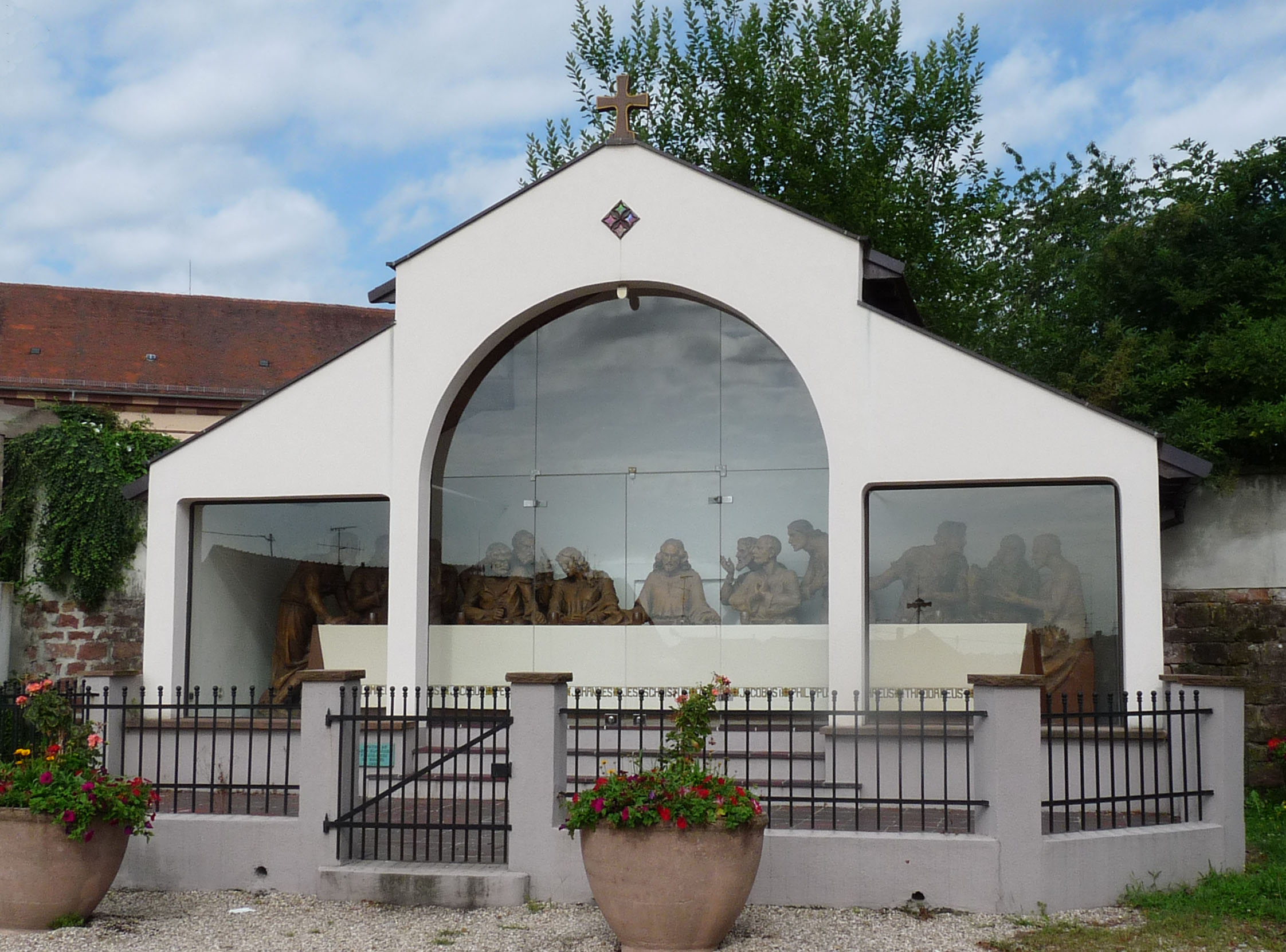 Soufflenheim (Bas-Rhin)